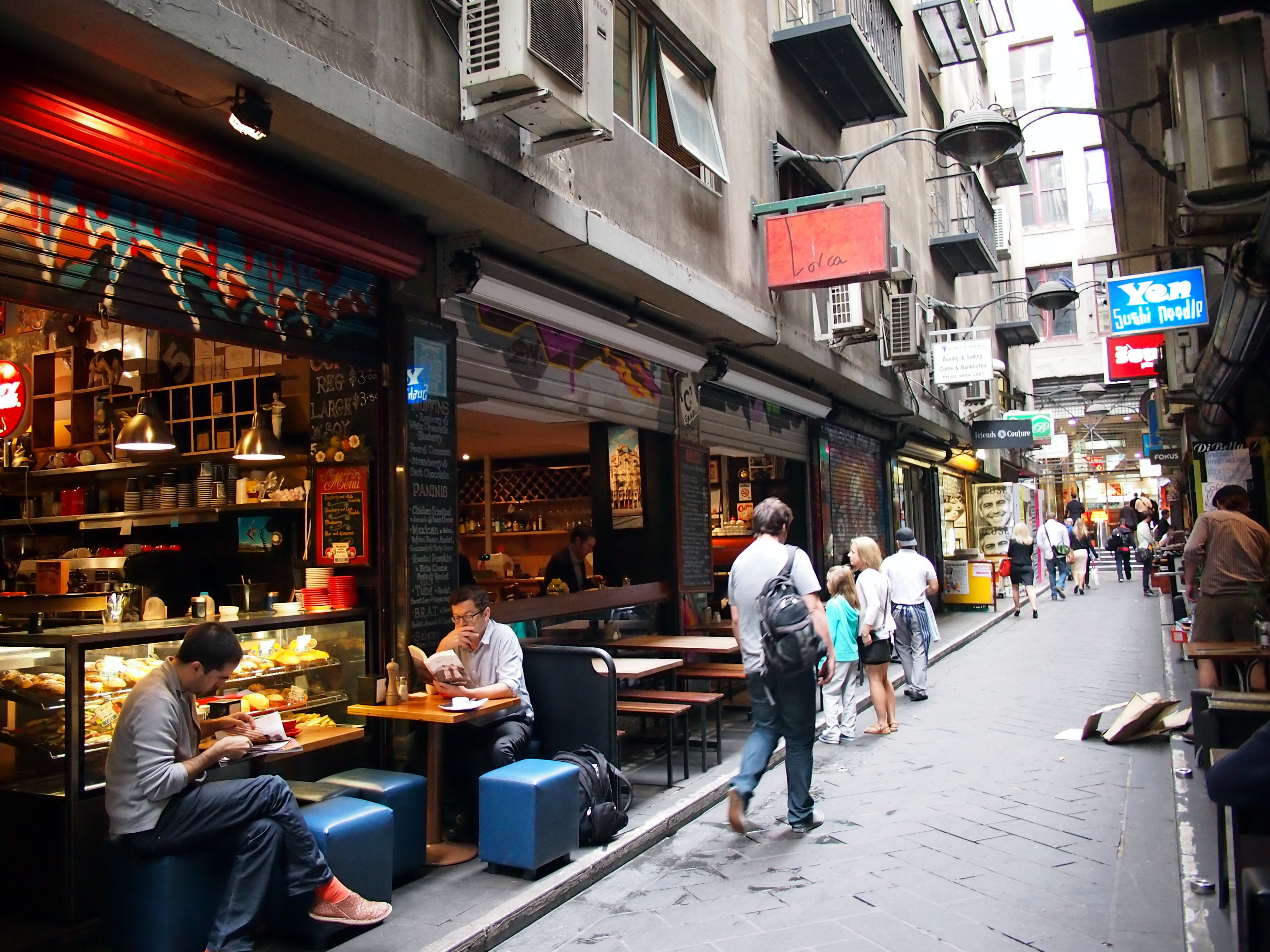 Centre Place during the morning rush hour in December 2012